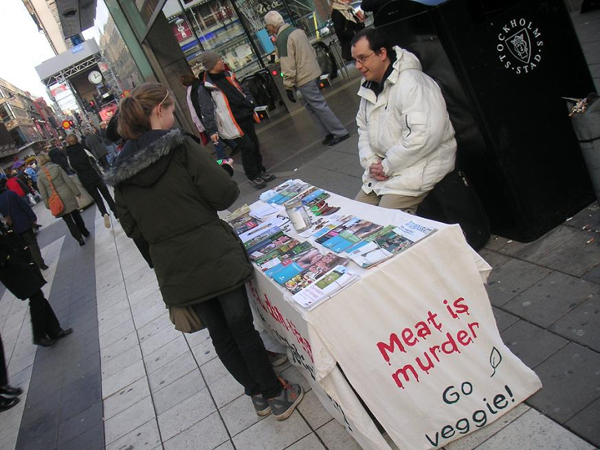 Street stall for animal rights, Stockholm, Sweden